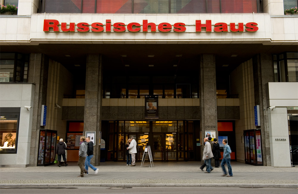 Russian Centre of Science and Culture in Berlin, Friedrichstraße 176-179, 10117 Berlin